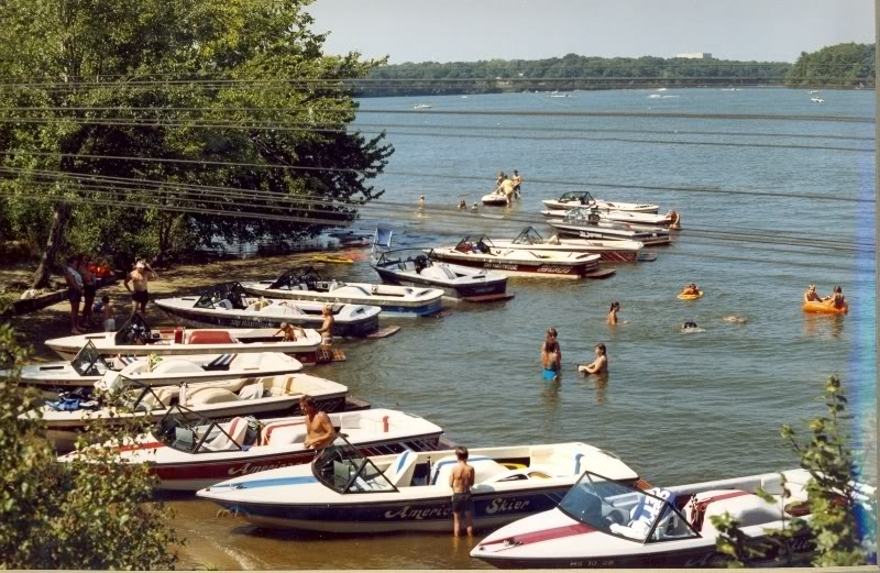 American Skiers shown at Three Seasons Ski Club Natick, MA showing several American Skiers. This picture was taken posted to by Nautique2001.